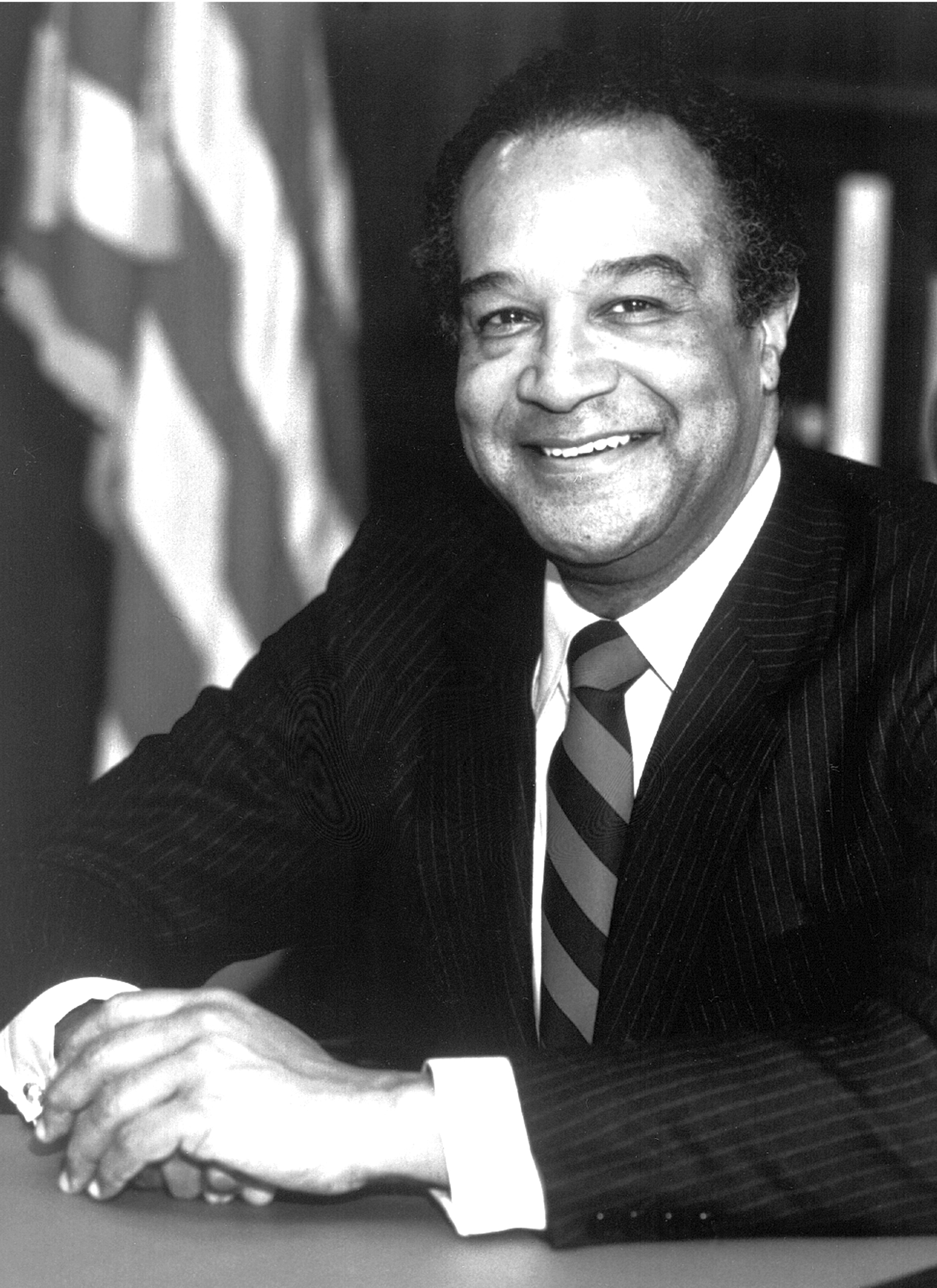 Official portrait of then-Secretary of Housing and Urban Development Samuel Pierce.